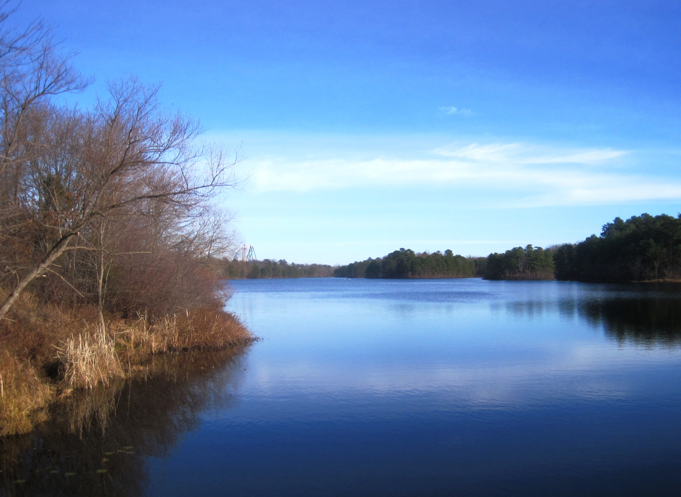 Photo of Prospertown Lake in Jackson Township, New Jersey. Photo is looking east from a dock near the lake's dam towards Six Flags Great Adventure; Nitro and SkyScreamer can be seen in the background.